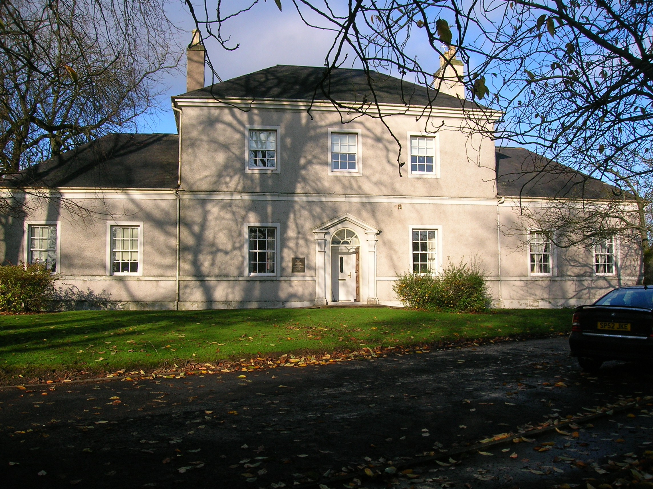 Polnoon Lodge, Eaglesham, Scotland. On site of Hunting Lodge, built by 10th Earl of Eglinton.